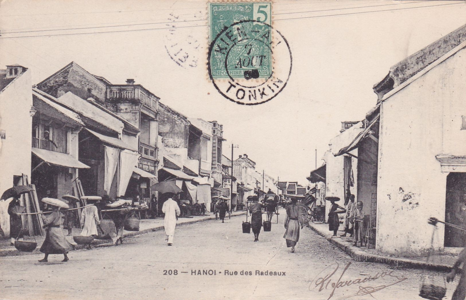 Phố Hàng Bè